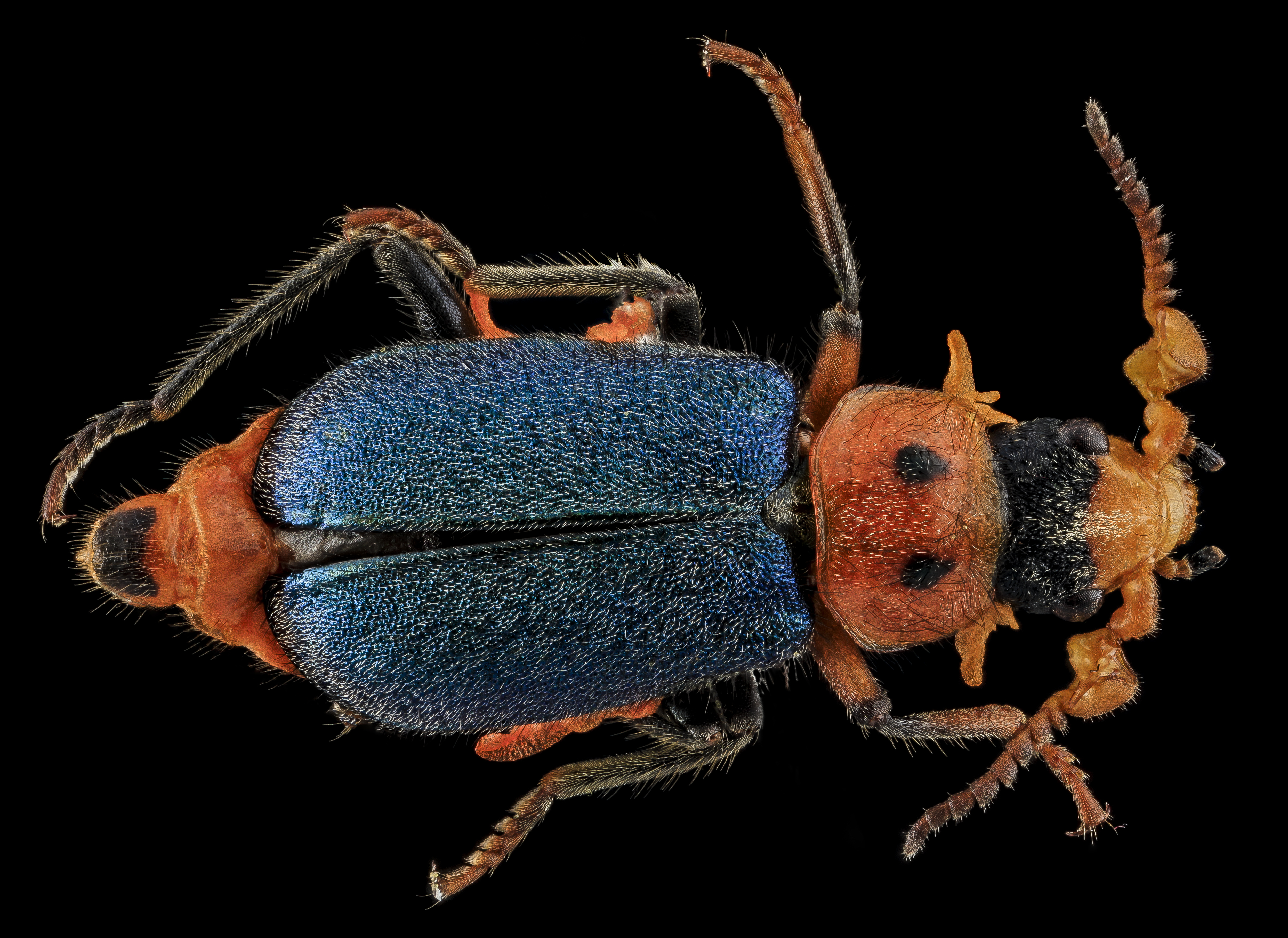 Collops bipunctatus, Melyridae family, Malachiinae subfamily, taken from flowers in Badlands National Park, South Dakota.